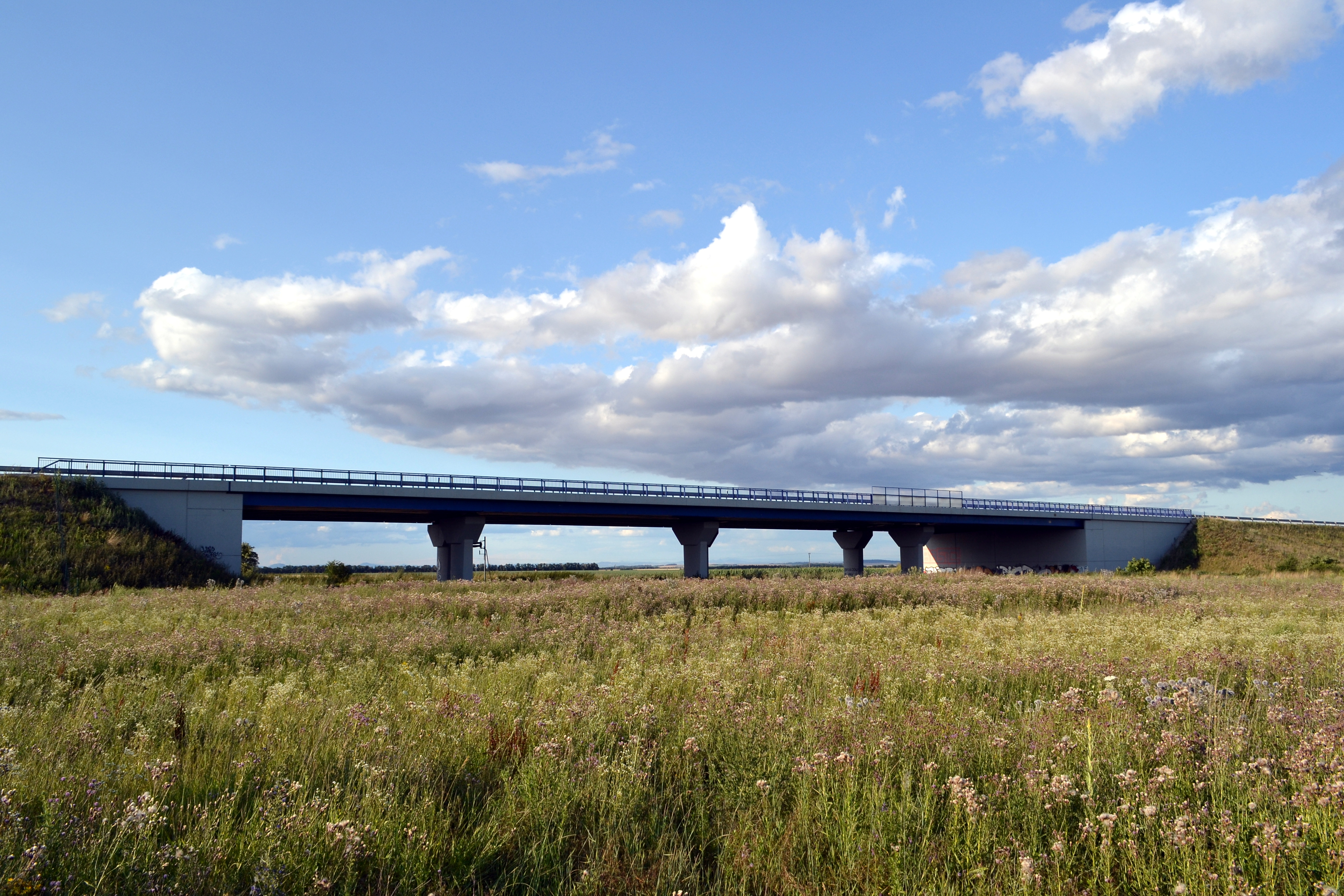 Bridge of the expressway R6 over railway line 120 near Pavlov, Central Bohemian Region, Czech Republic.